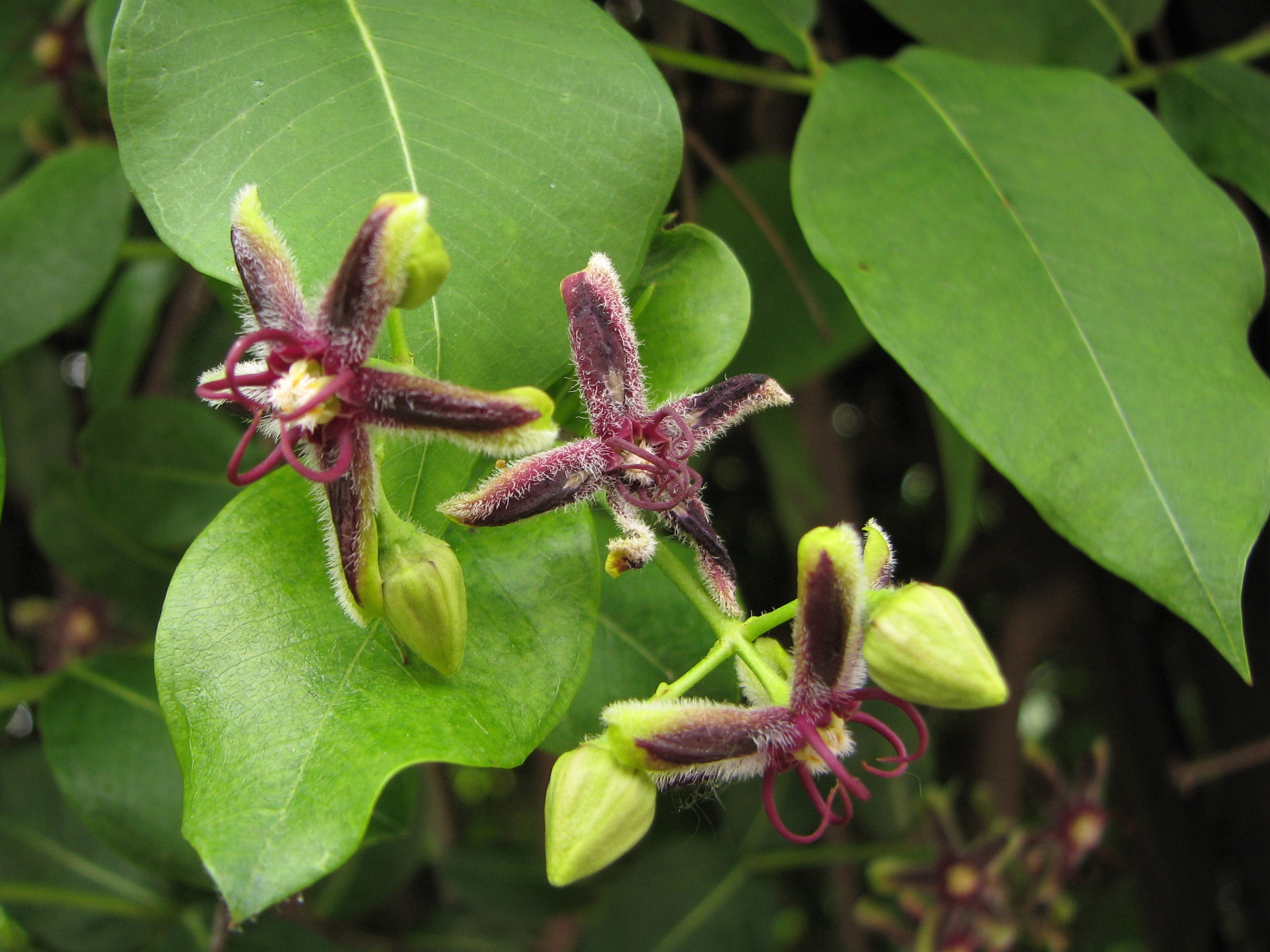 Periploca graeca, flowers. Plant cultivated in Wrocław University Botanical Garden, Wrocław, Poland.